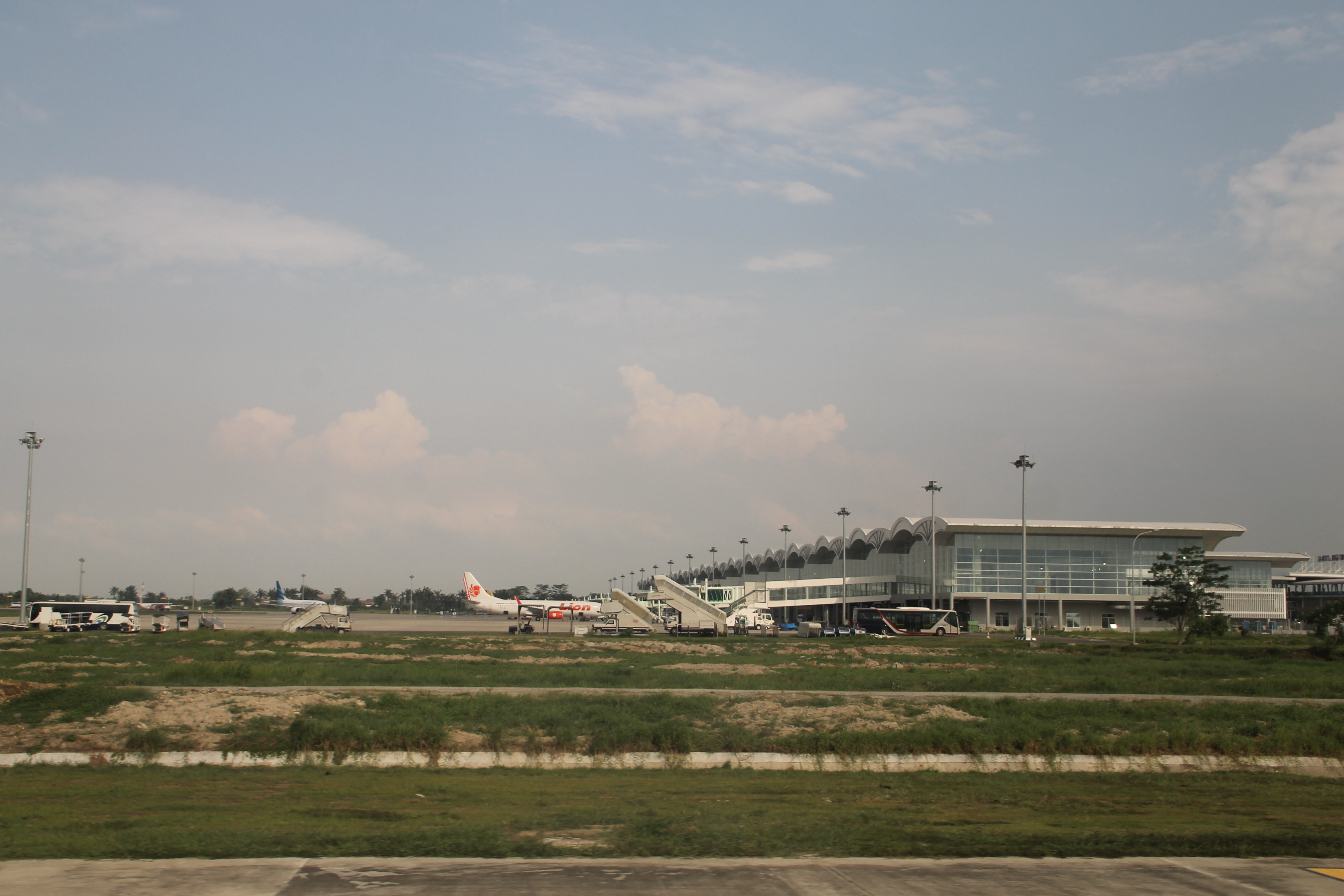 Apron of the Kuala Namu airport in Medan, Indonesia